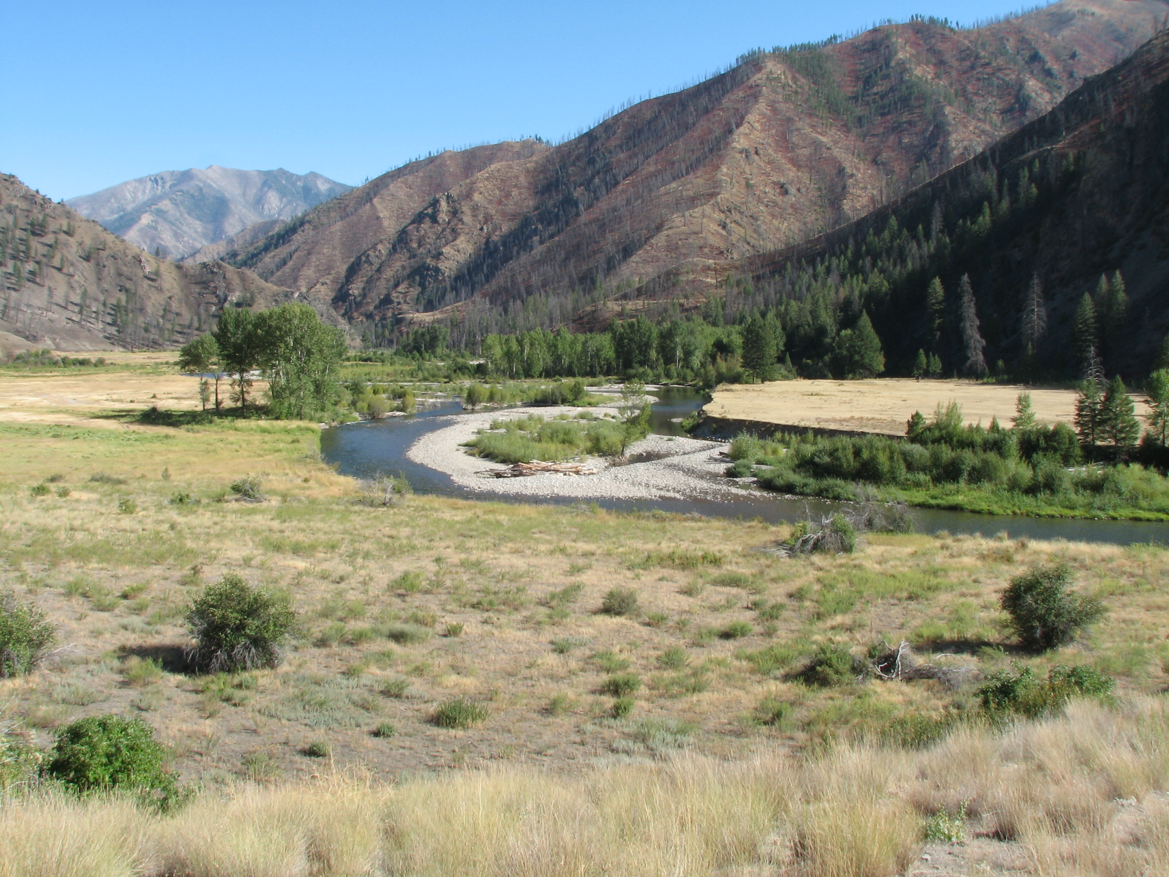 Cabin Creek in the Frank Church-River of No Return Wilderness